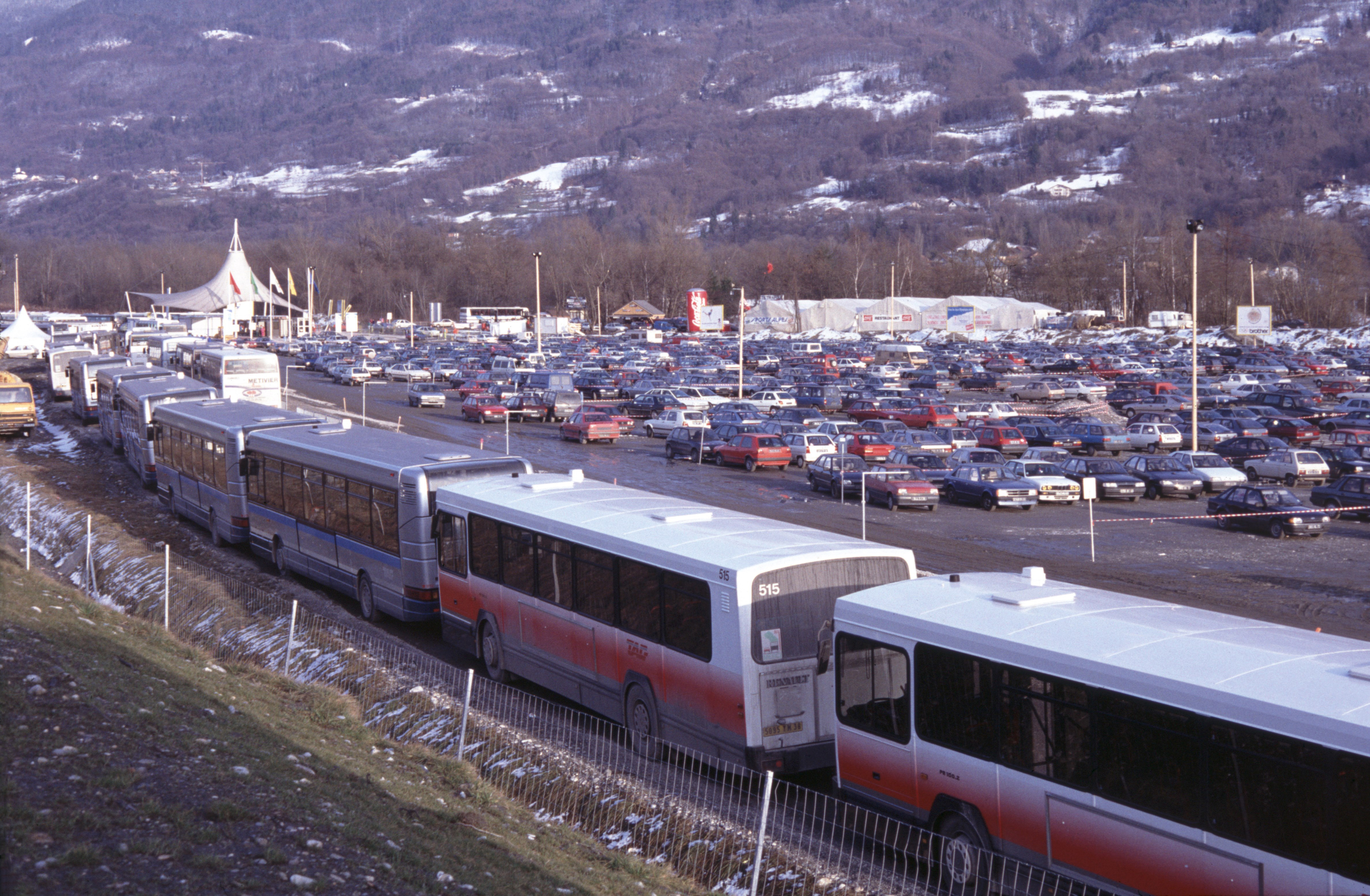 Few buses at the temporary bus station (Sainte-Hélène-sur-Isère, France) during the Olympic Games, on February 18, 1992.